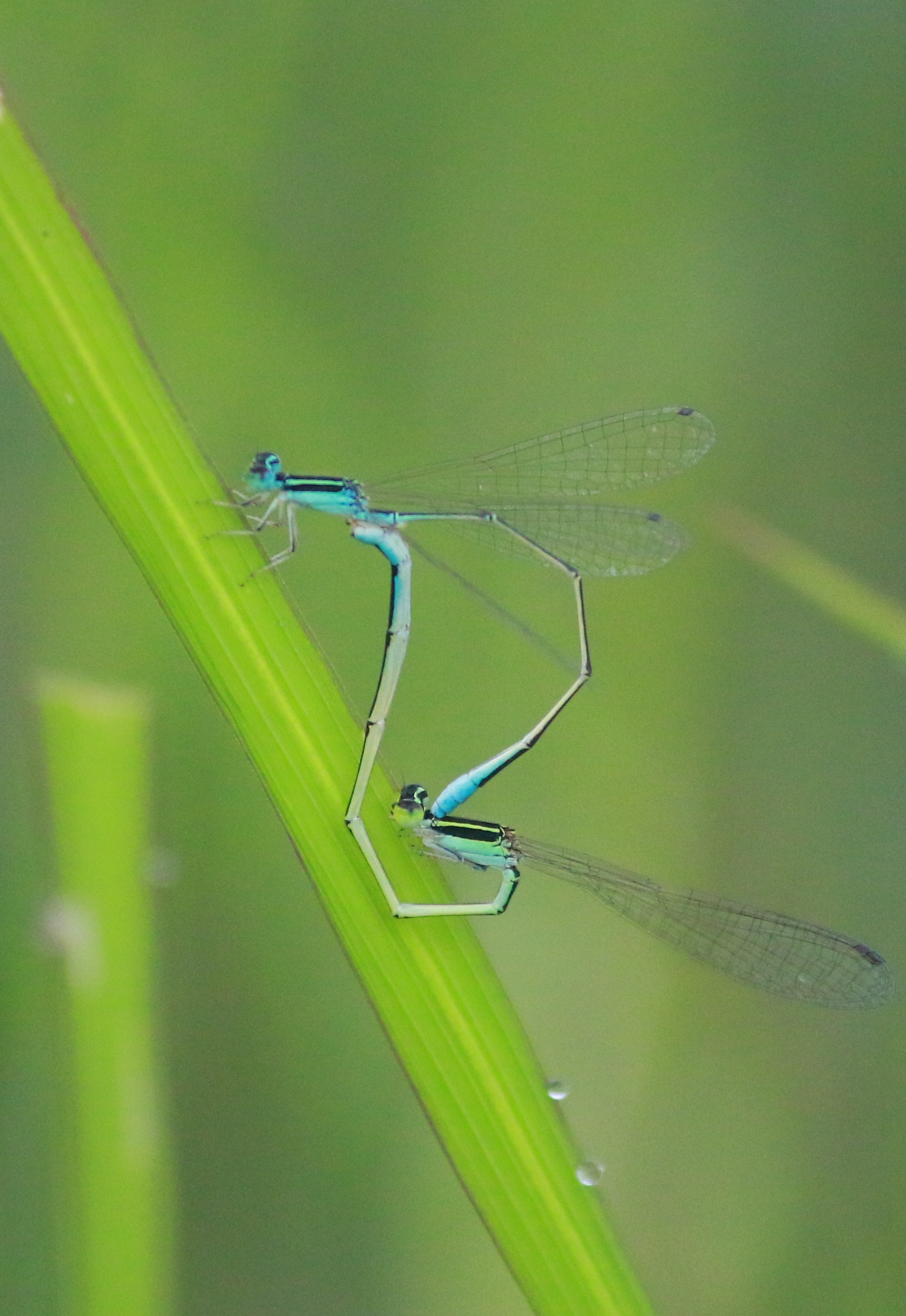 Green-striped Slender Dartlet ,Aciagrion occidentale